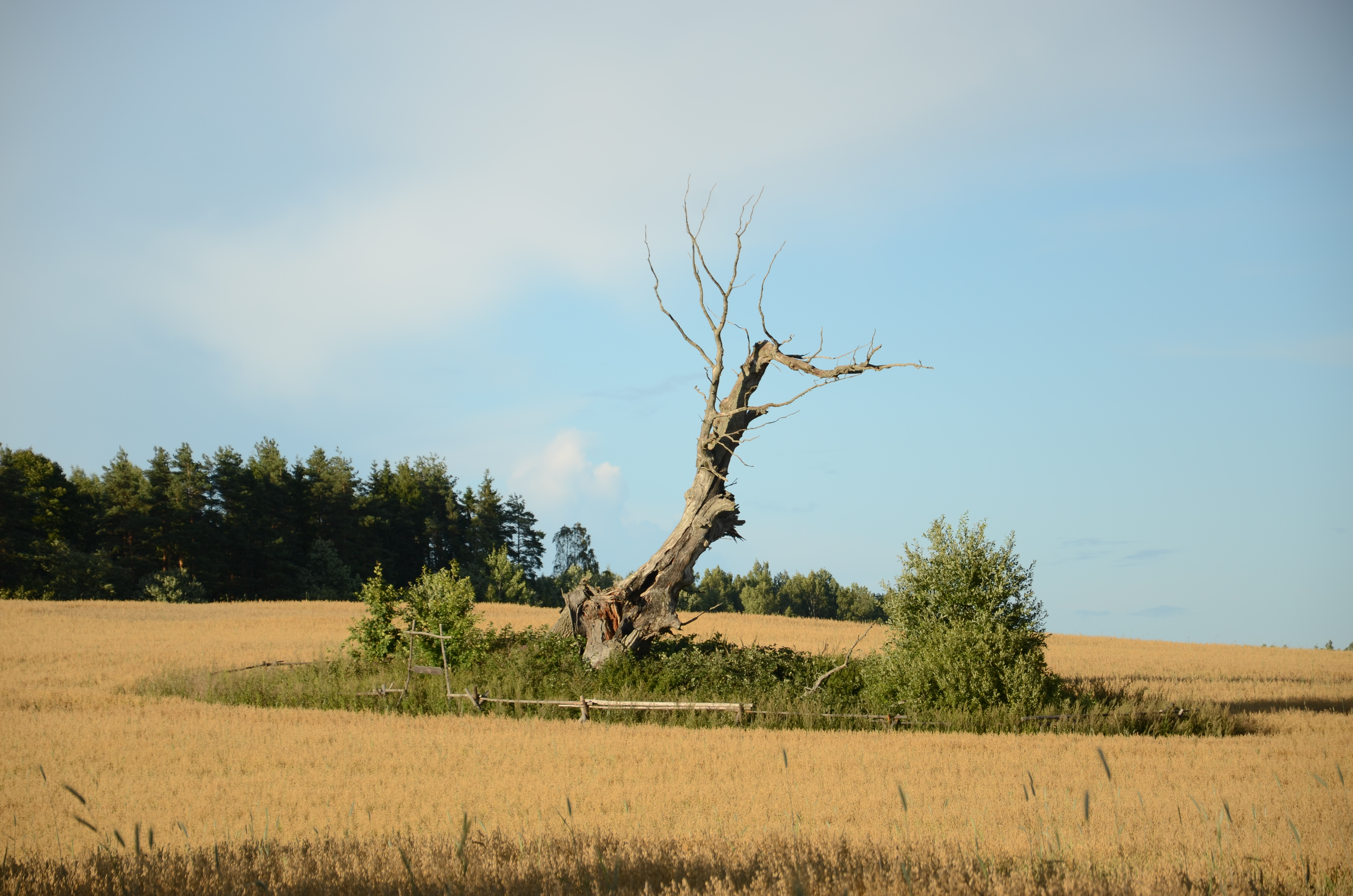 The sacred oak Kuku tamm in Karste village (Kanepi parish).